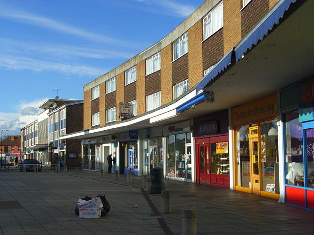 The shopping precinct, Woodley Original description: Shops on the eastern side of Crockhamwell Road which here is pedestrianised and full of ugly architecture.